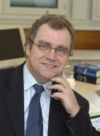 A portrait of Jos Engelen, Chief Scientific Officer of CERN, taken in December 2003, just before taking office. Engelen held this position until 2008.